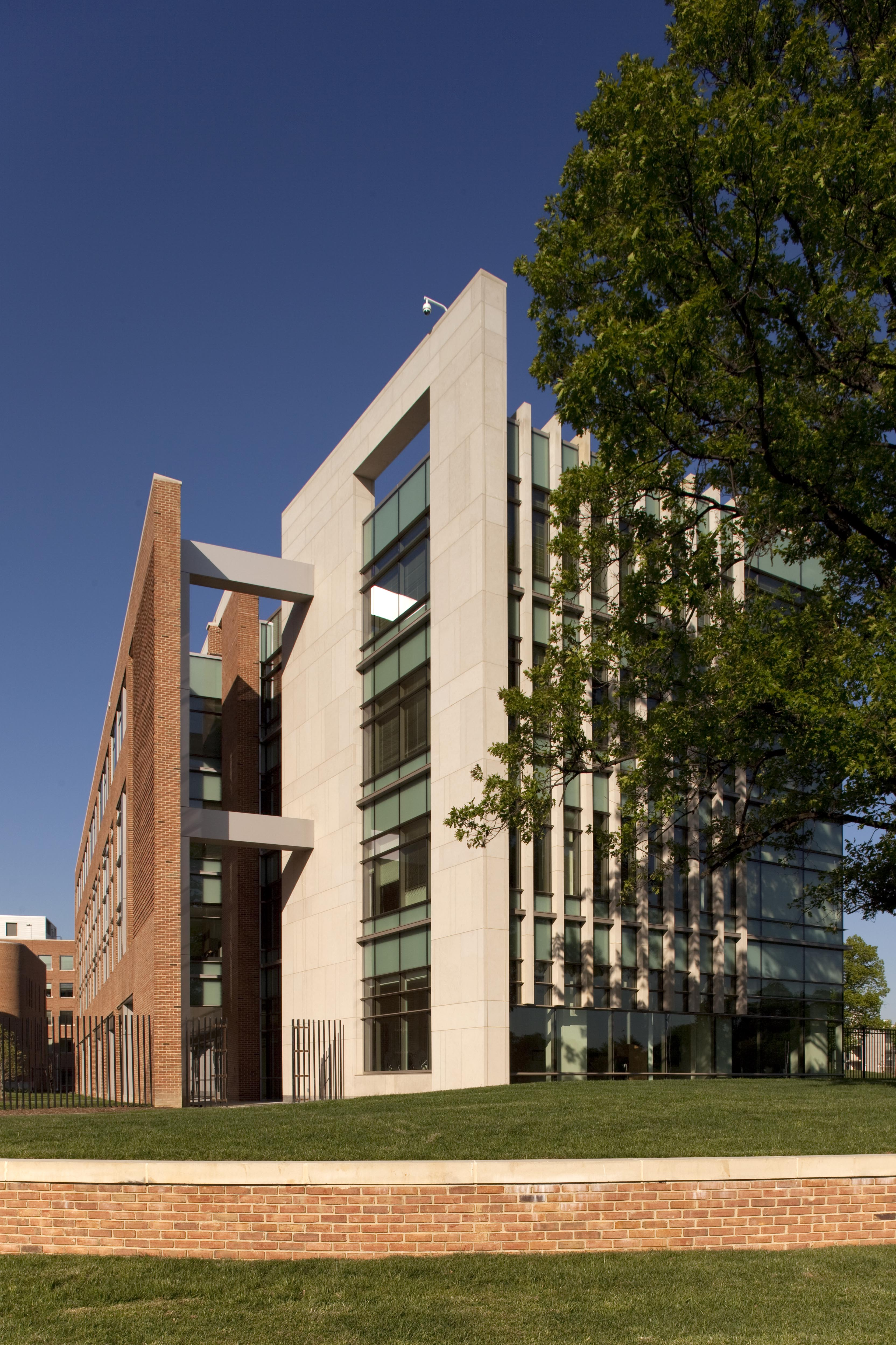 FDA Building 31 houses the Office of the Commissioner and the Office of Regulatory Affairs. The FDA campus is located at 10903 New Hampshire Ave., Silver Spring, MD 20993.